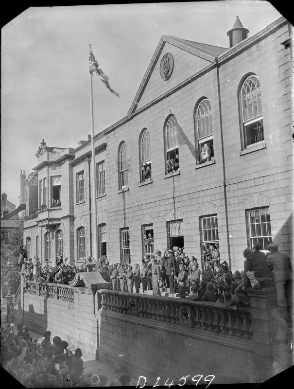 Channel Islands Liberated- the End of German Occupation, Channel Islands, UK, 1945 Crowds of people smile and wave as Lieutenant E D Stoneman of the British Task Force salutes the raising of the Union flag at St Peter Port, Guernsey, following the signing of the surrender document. This is the first time that this flag has been raised for almost five years.